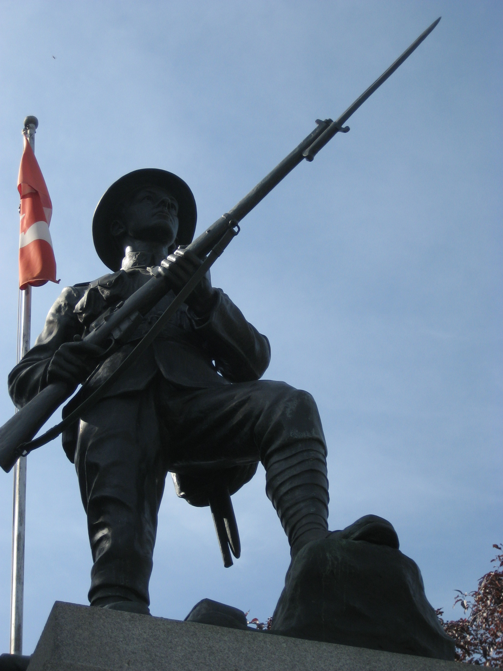 Memorial Square, King Street West, Dundas, Hamilton, Canada.